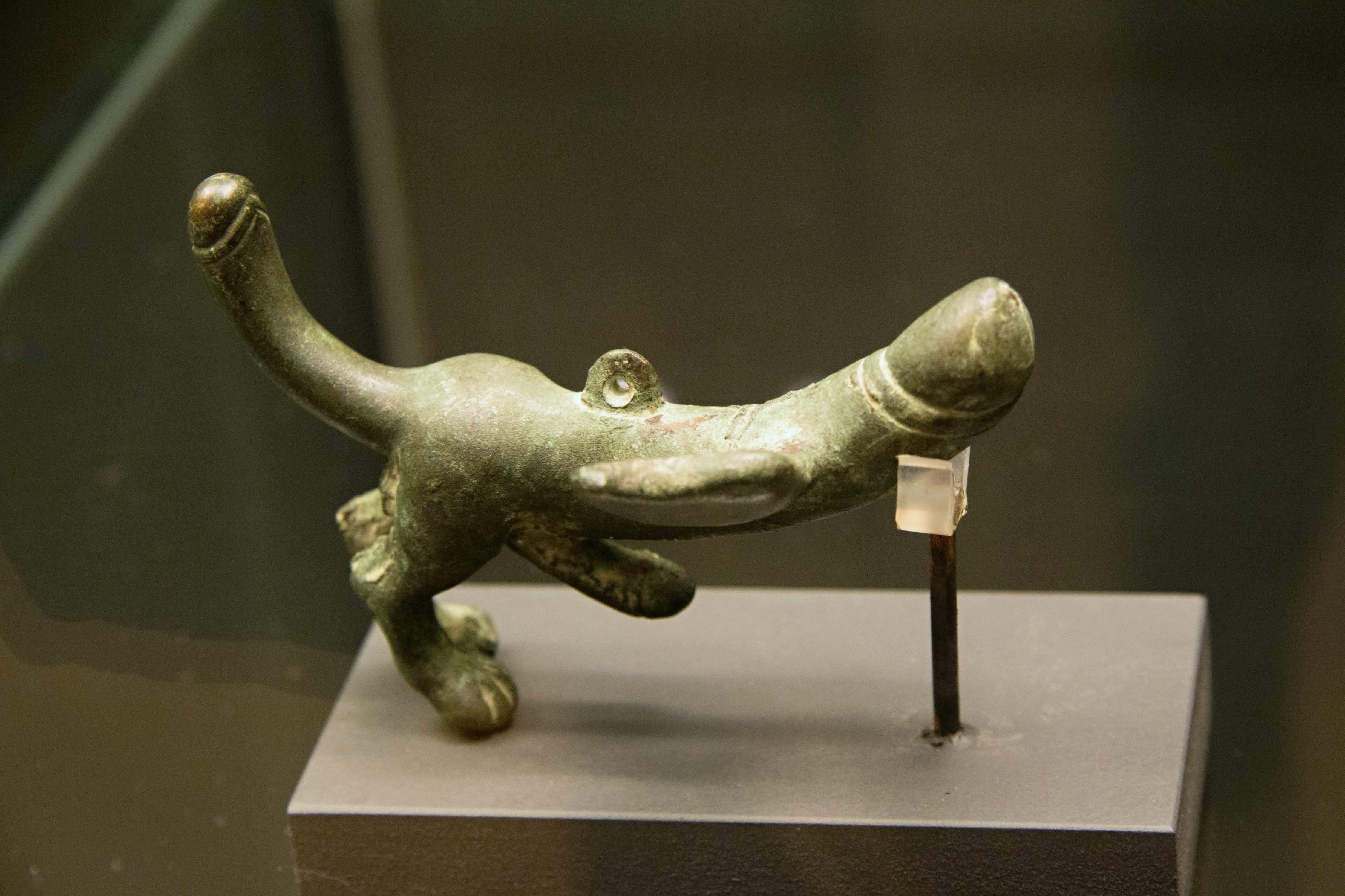 Phallic pendant. Bronze, Roman Empire. NG Prague, Kinský Palace, NM-H10 7087.